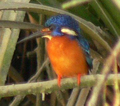 detail from Blue-eared_Kingfisher.jpg from the English Wikipedia